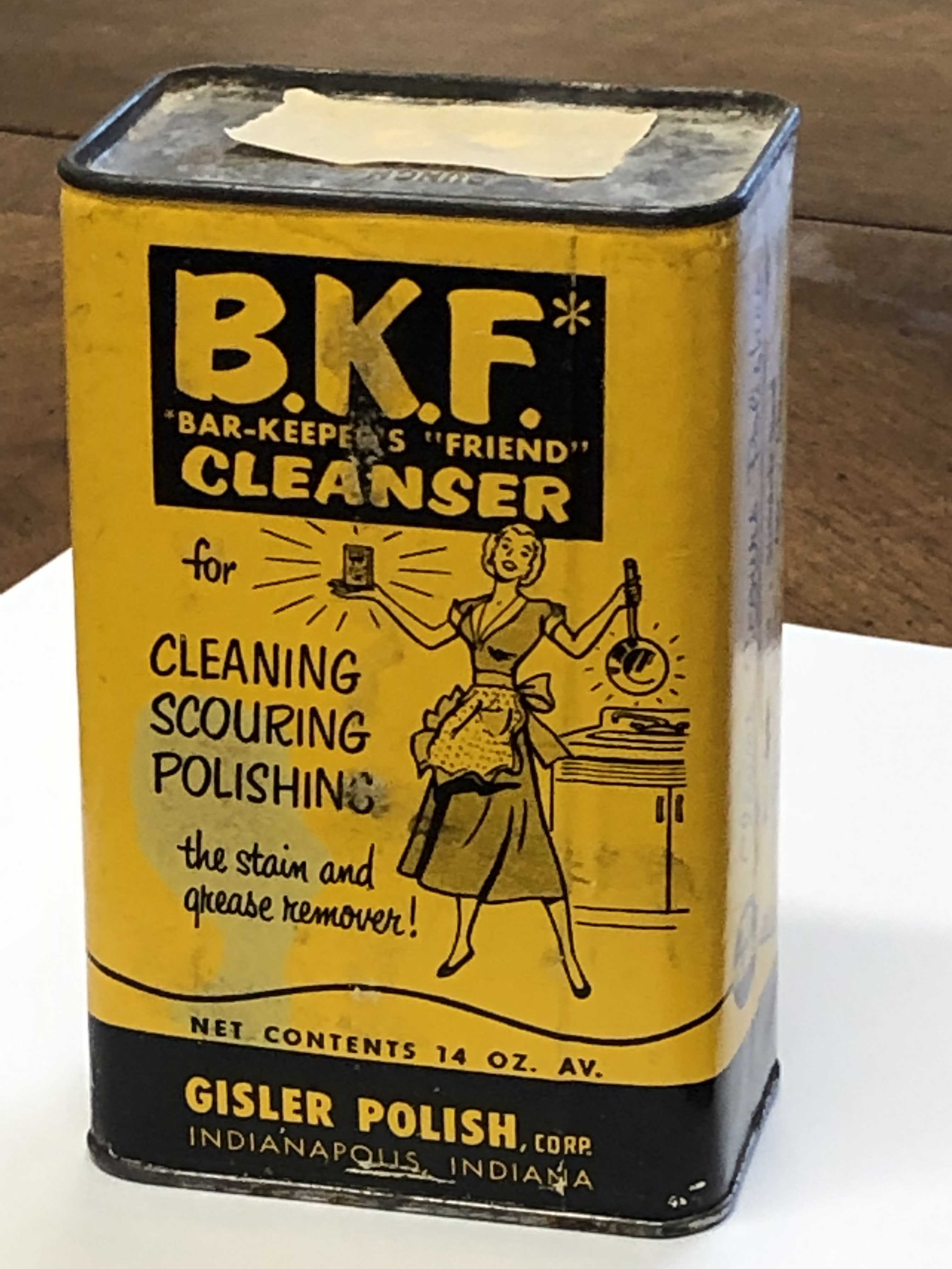 Gisler Polish Corp era bar keepers friend carton